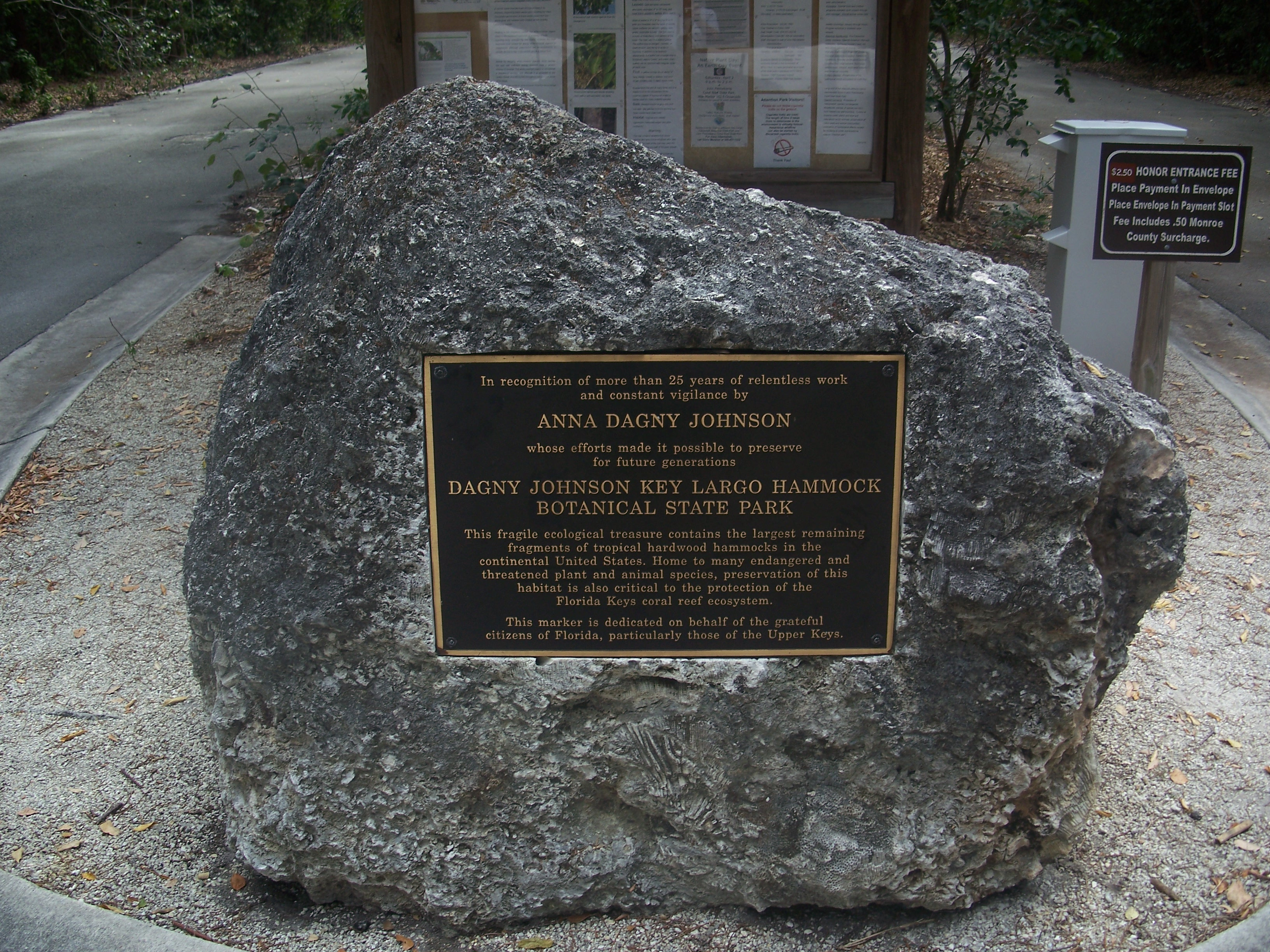 Dagny Johnson Key Largo Hammock Botanical State Park